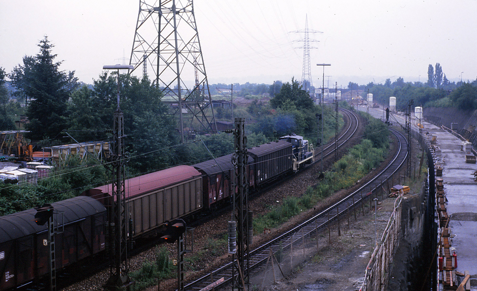 Construction works at Langes Feld Tunnel in 1987